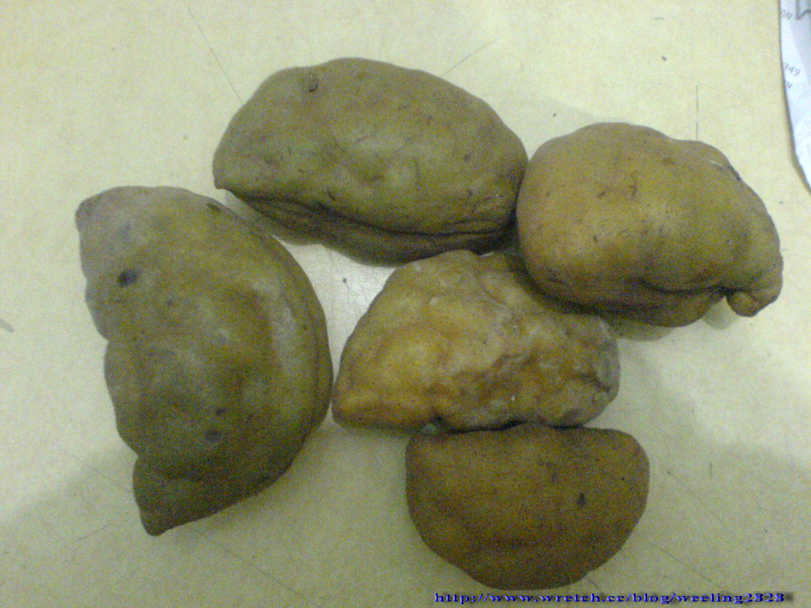 a toad like fruit